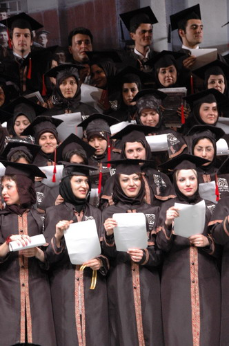 Graduation Ceremony of Medical students-Class of 2008- TUMS